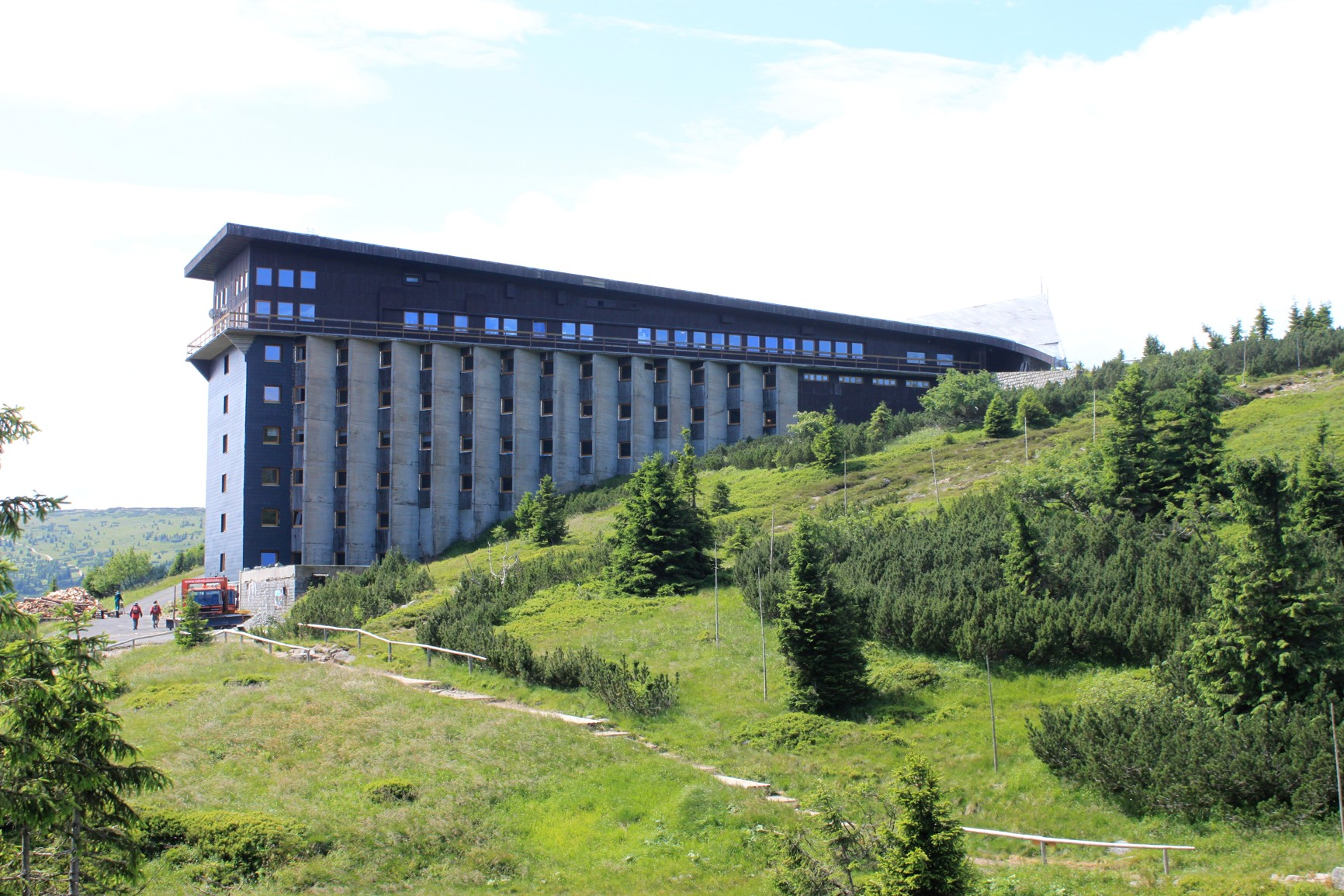 Labská.